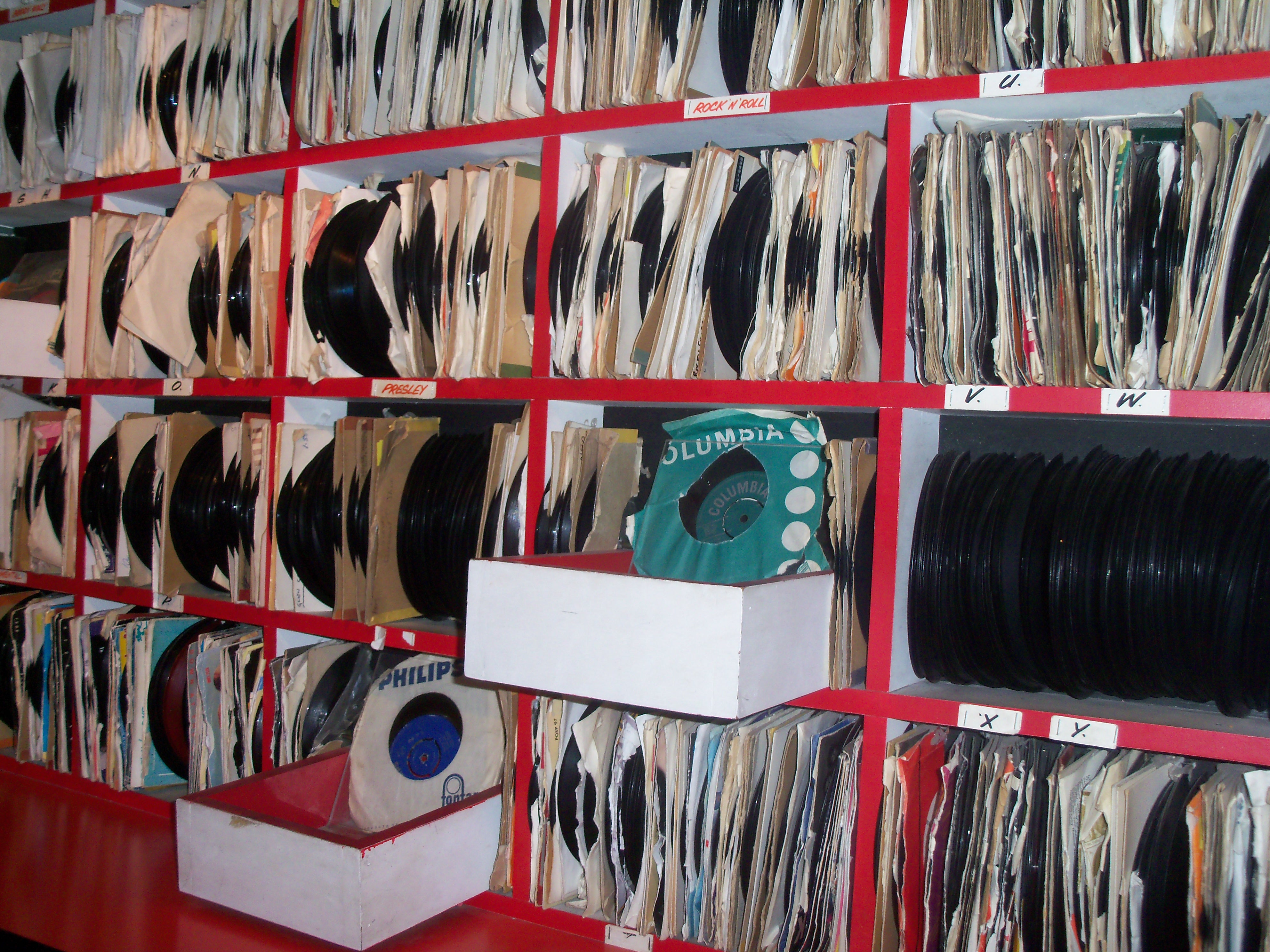 Remember the days? (And I feel really old for being able to.)